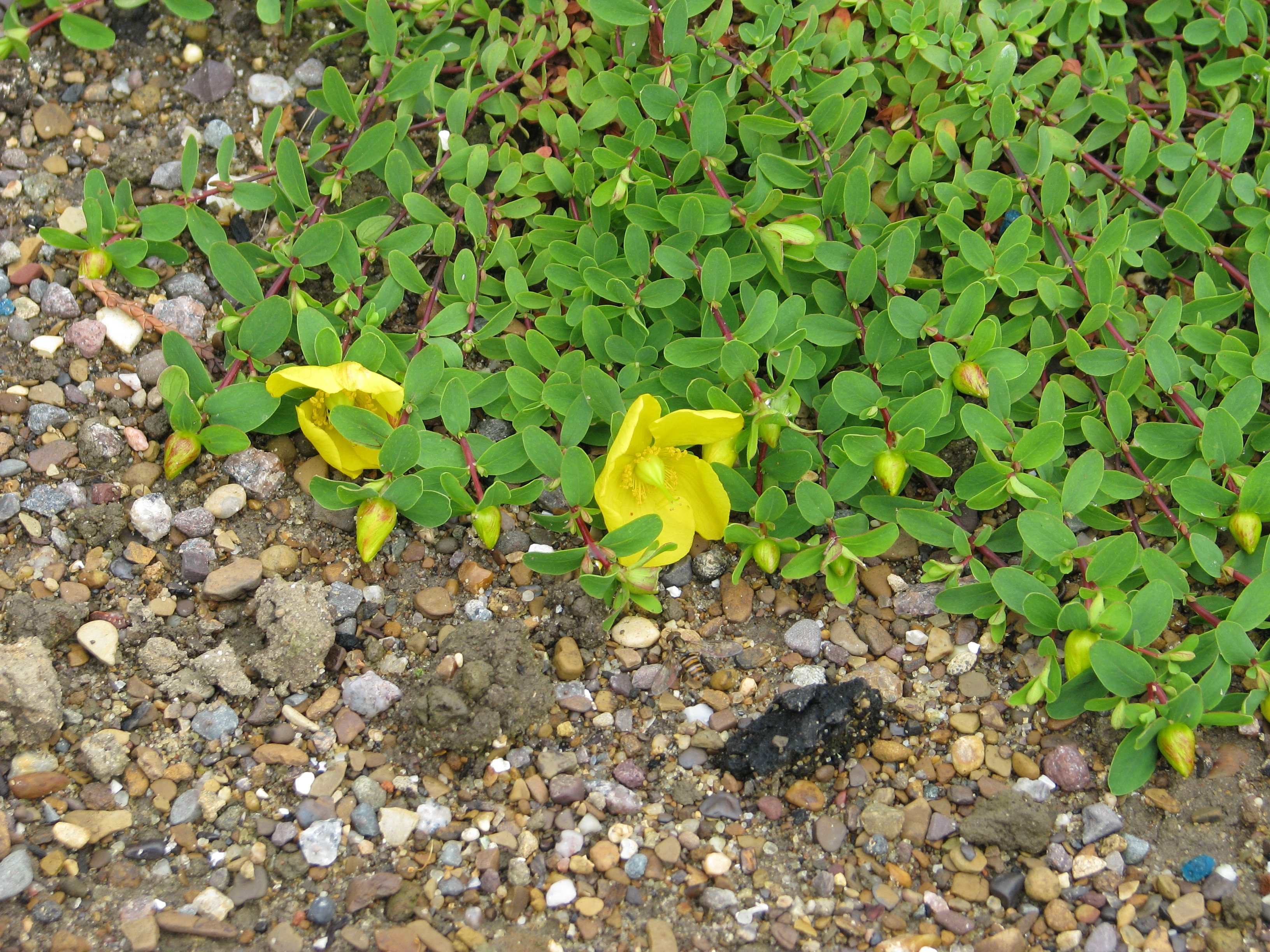 Hypericum reptans